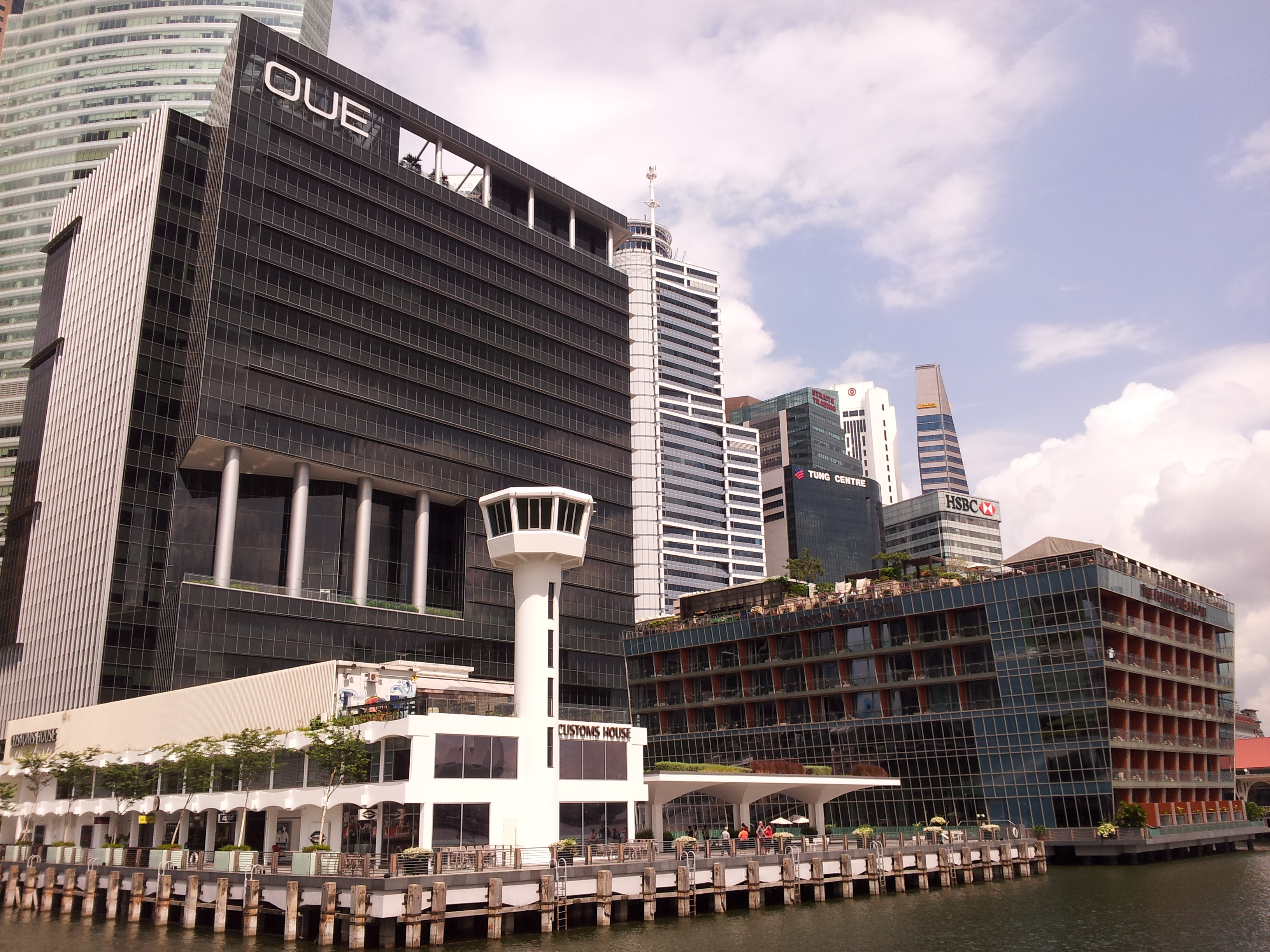 OUE Bayfront, the old Customs House and The Fullerton Bay Hotel, Singapore.